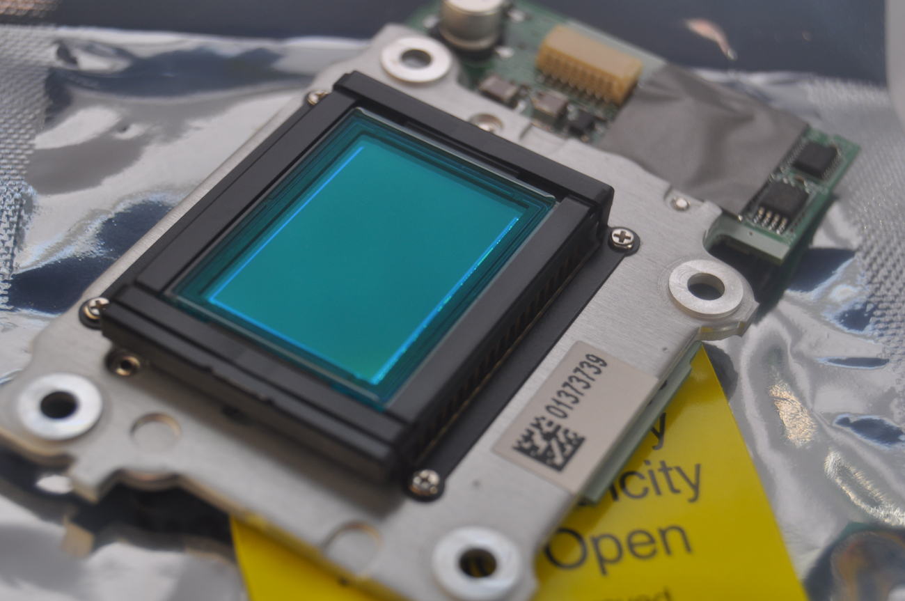 Front side of the Nikon D70S sensor.